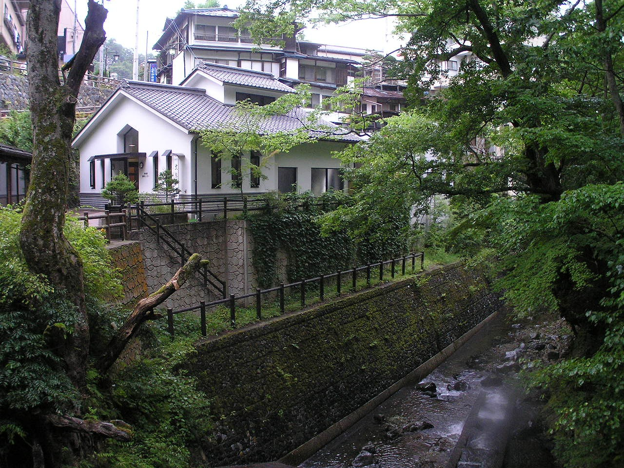 Public bath of Kakeyu Onsen spa